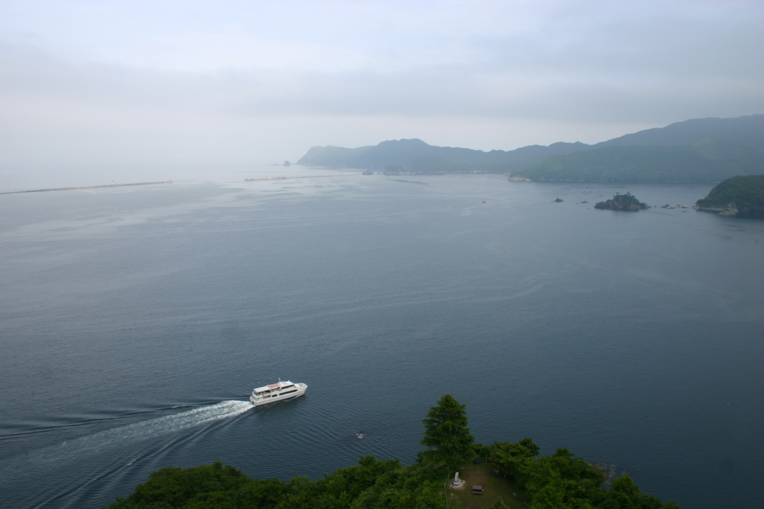 Kamaishi Bay in Rikuchu Coast in Japan